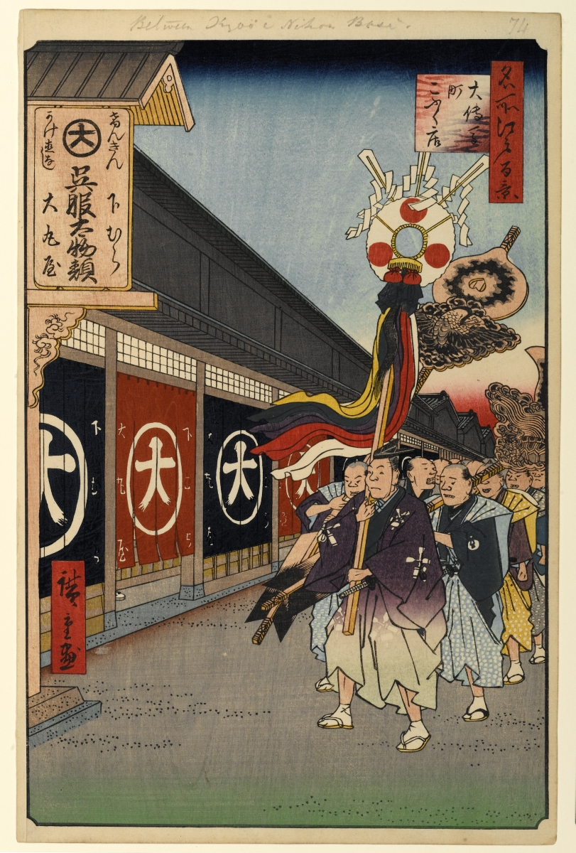 Part of the series One Hundred Famous Views of Edo, no. 074, part 3: Autumn.